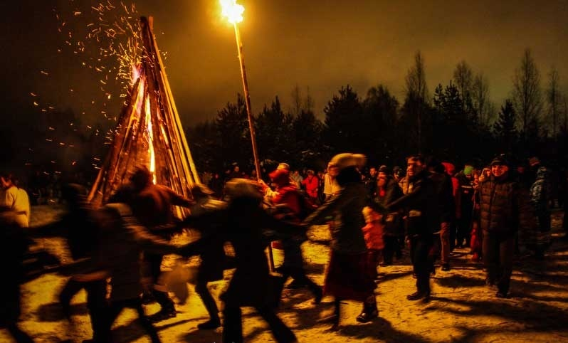 Koliada 2017 celebrated by the Union of Slavic Rodnover Communities (Союз Славянских Общин Славянской Родной Веры), in Naro-Forminsk, Russia.